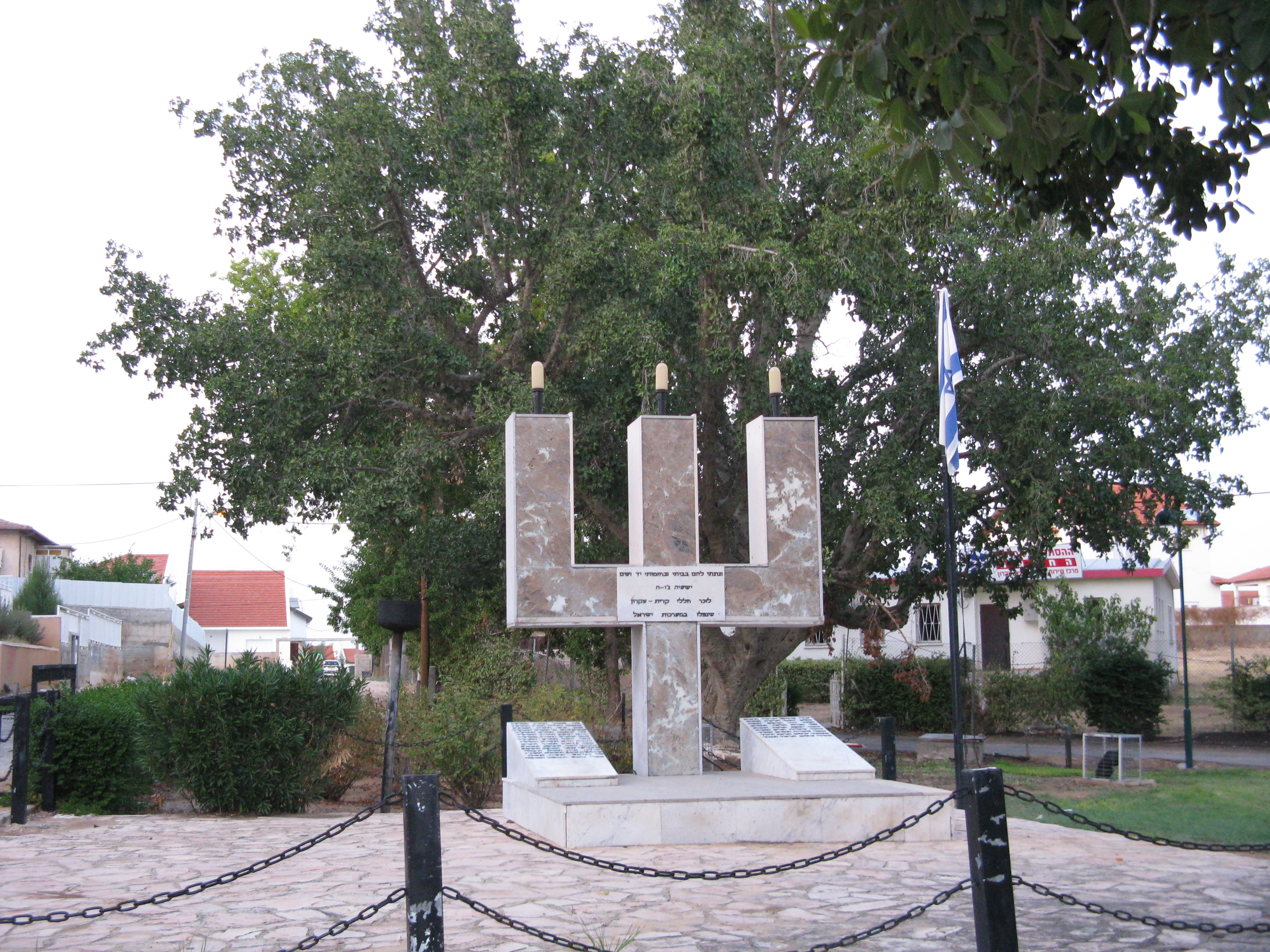 Soldiers' monument in Kiriat Ekron